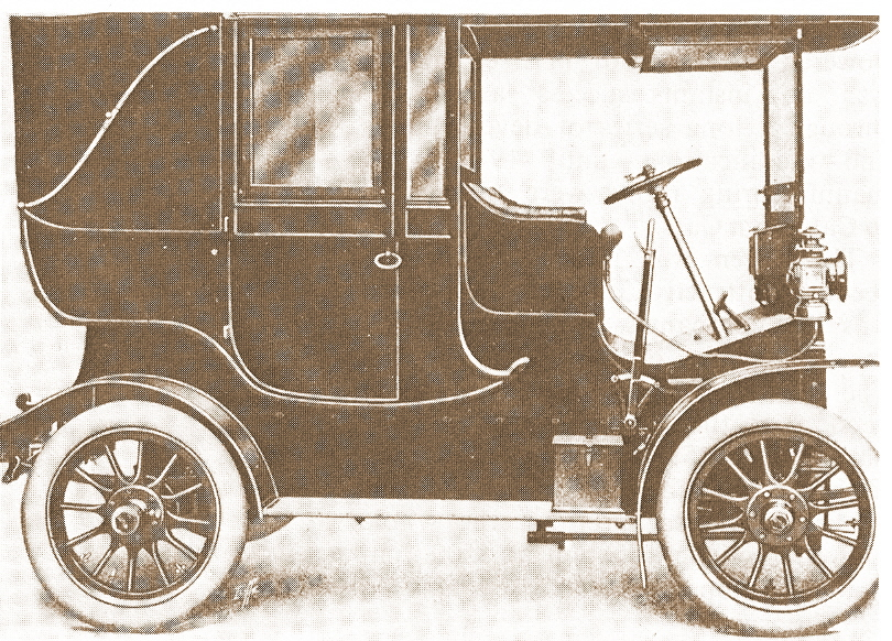 1909 Lotis 12/18 hp Landaulette